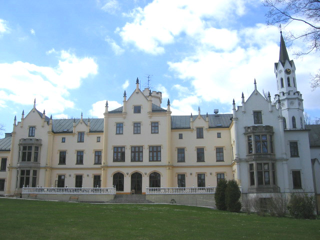 Baths in Vráž (Czech Republic, District Písek) - Building of Neogothic Castle - view from behind